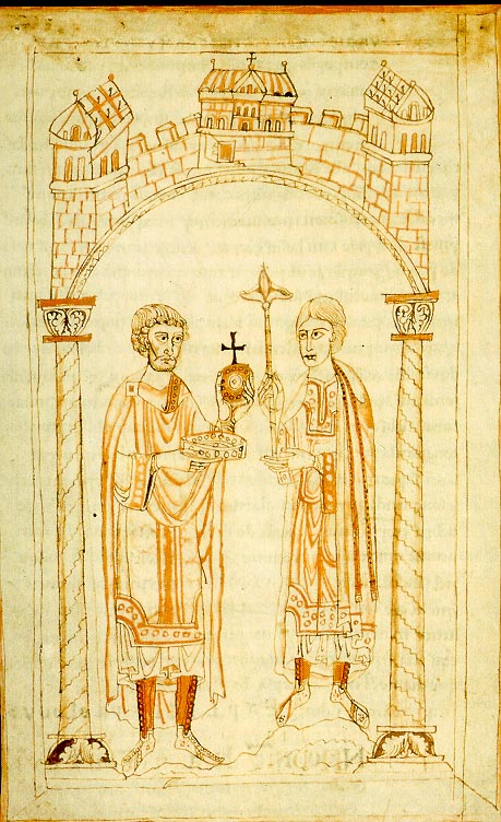 Abdication of Henry IV in favour of Henry V, from the Chronicle of Ekkehard von Aura